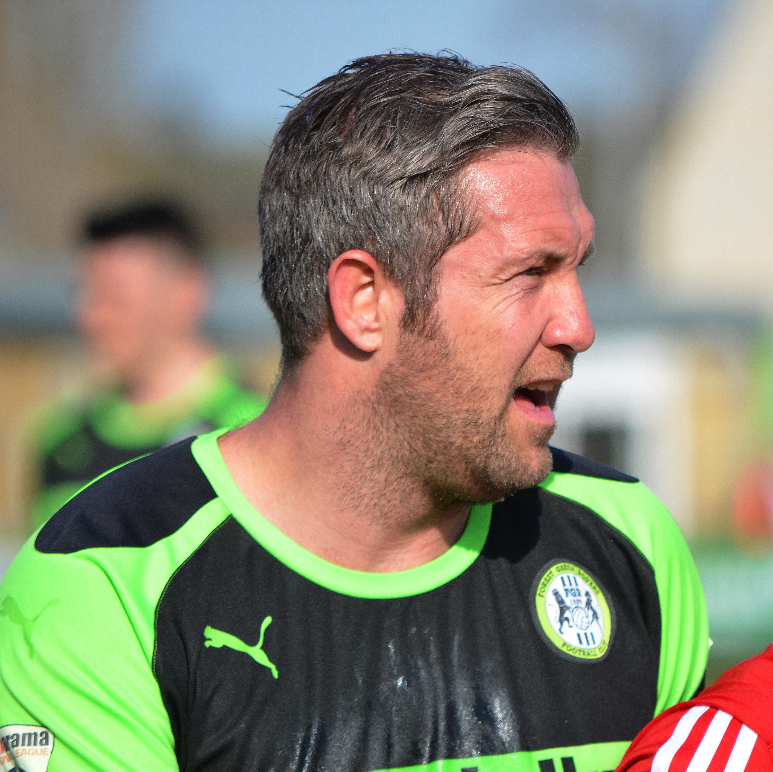 Jon Parkin playing for Forest Green Rovers against Aldershot Town at The New Lawn, Nailsworth on 25 March 2016